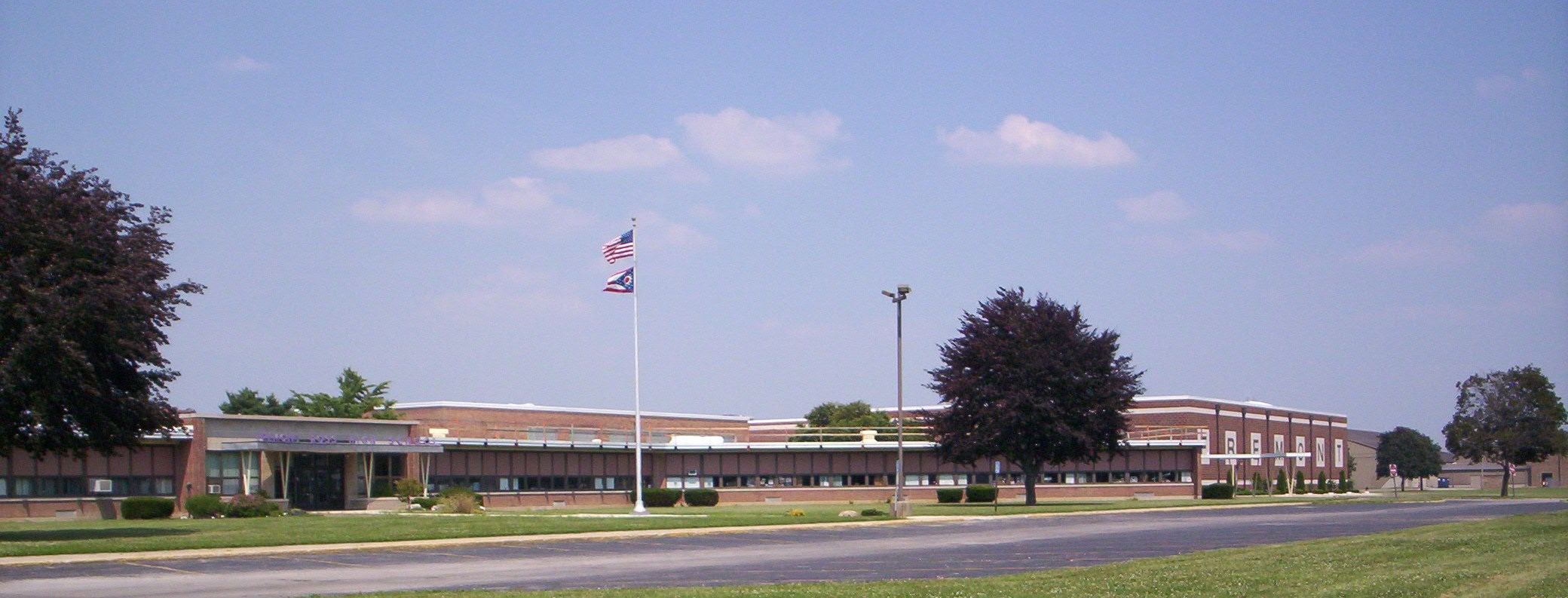 Fremont Ross High School in Fremont, Ohio.